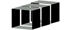 A perspective look on the Einzel lens.